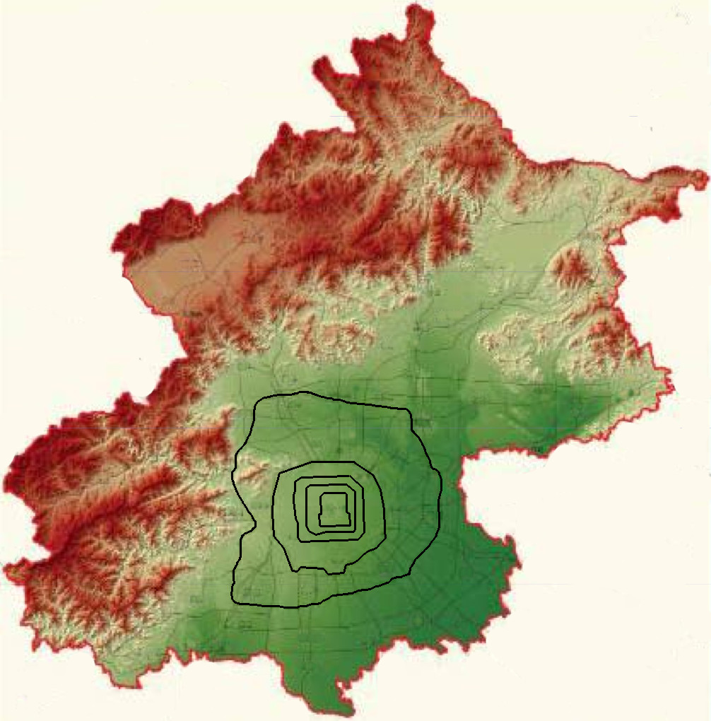 Beijing municipal topographic map